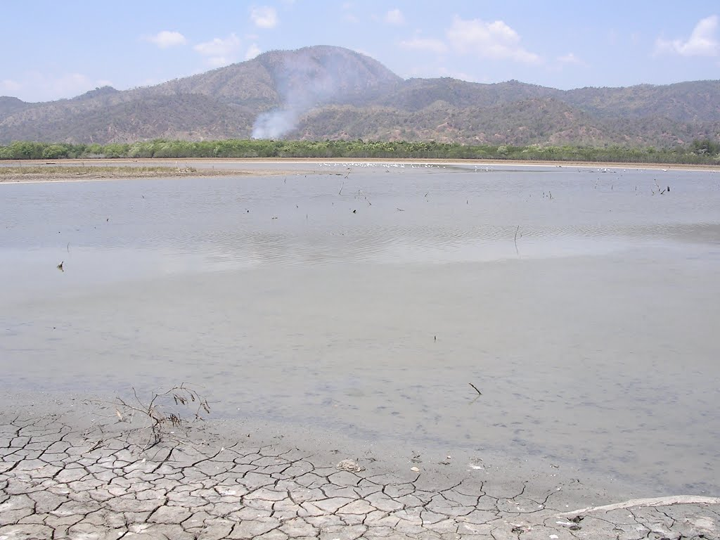 Hundreds of waterbirds in distance on Lake Be Malae